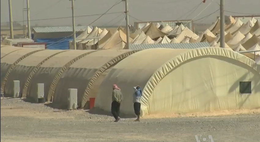 Syrian refugee center on the Turkish border (3 August 2012).